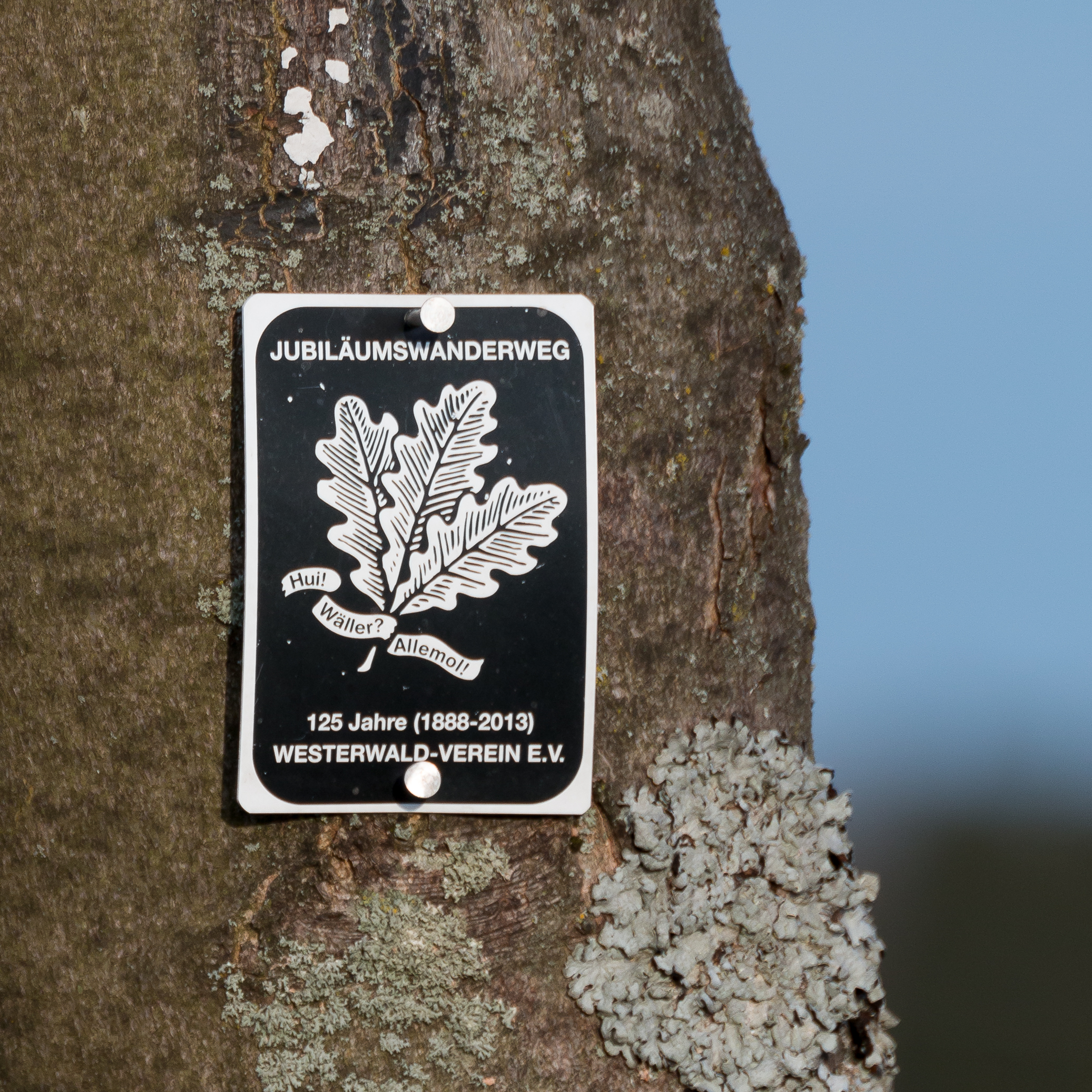 Hiking sign of the Jubiläumswanderwegs of the Westerwald-Vereins near Höhn